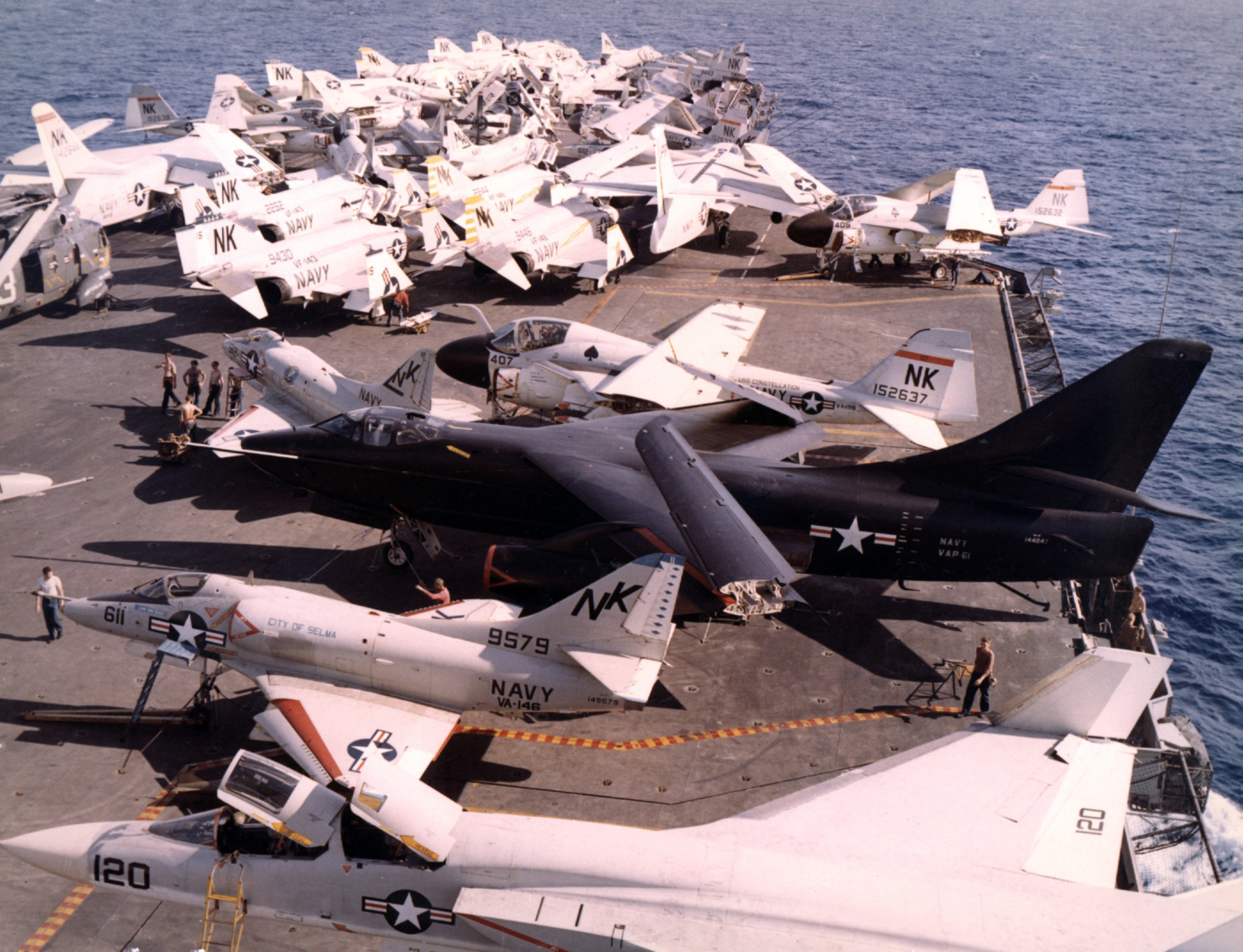 Various U.S. Navy aircraft of Attack Carrier Air Wing 14 (CVW-14) on deck of the aircraft carrier USS Constellation (CVA-64) during a deployment to Vietnam from 29 April to 4 December 1967. In the foreground are a Douglas A-4C Skyhawk (BuNo 149579, "City of Selma") from Attack Squadron VA-146 Blue Diamonds; a black painted Douglas RA-3B Skywarrior (BuNo 144847) from Heavy Photographic Reconnaissance Squadron VAP-61 World Recorders; an A-4C (BuNo 149508) from VA-55 Warhorses; and a Grumman A-6A Intruder (BuNo 152637) from VA-196 Main Battery.